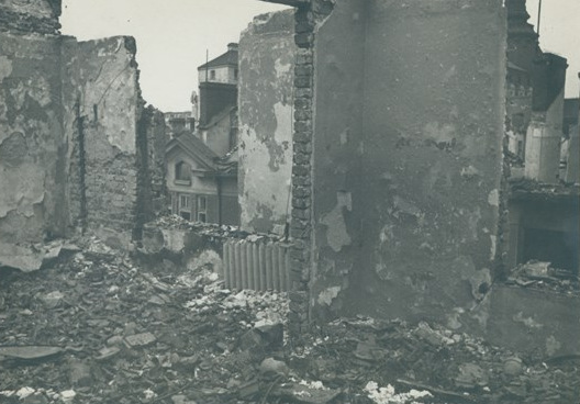 Bombing of Sofia in WWII, Konstantin Shtarkelov's house